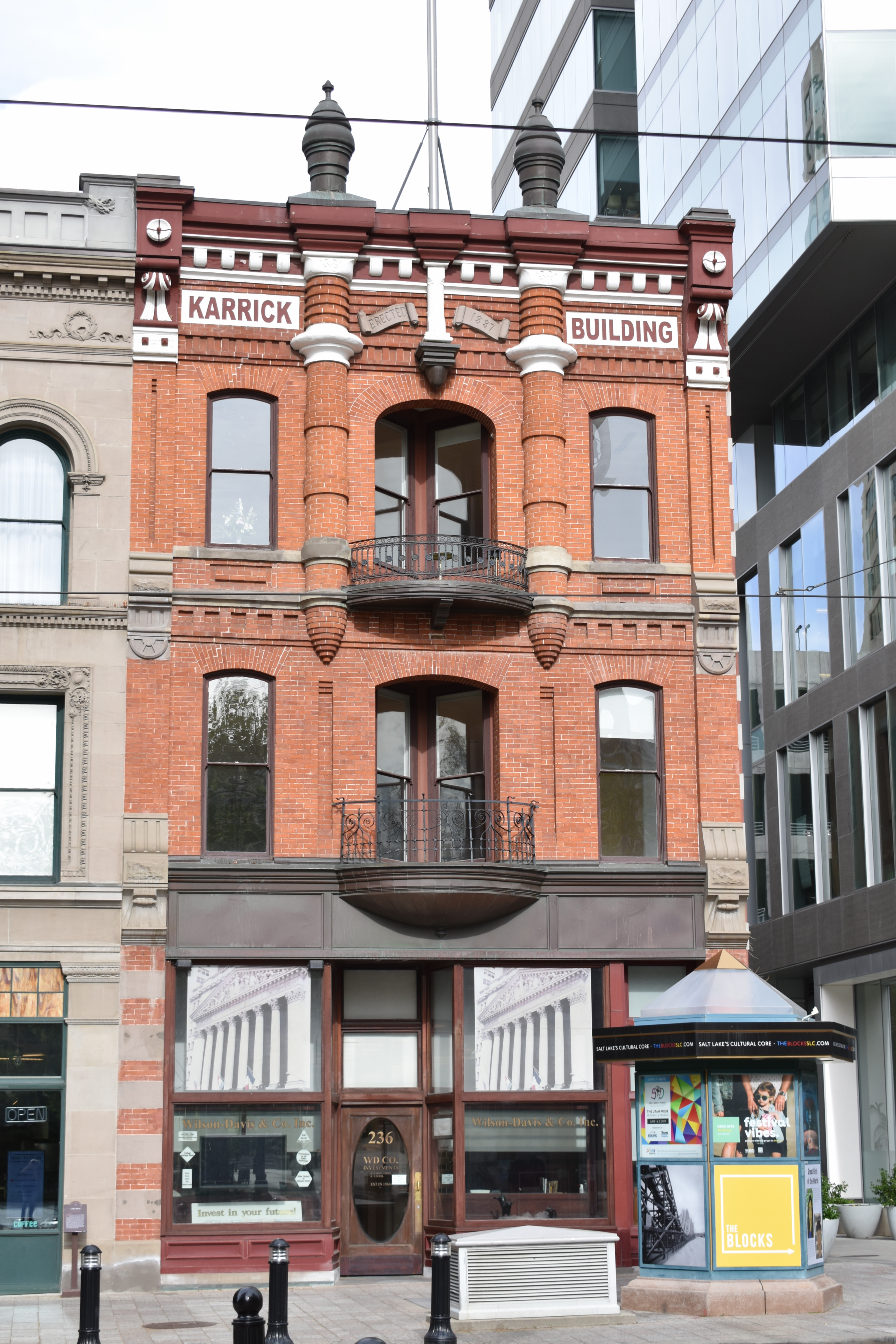 The Karrick Block (1887) in Salt Lake City was designed by R.K.A. Kletting and is listed on the National Register of Historic Places.